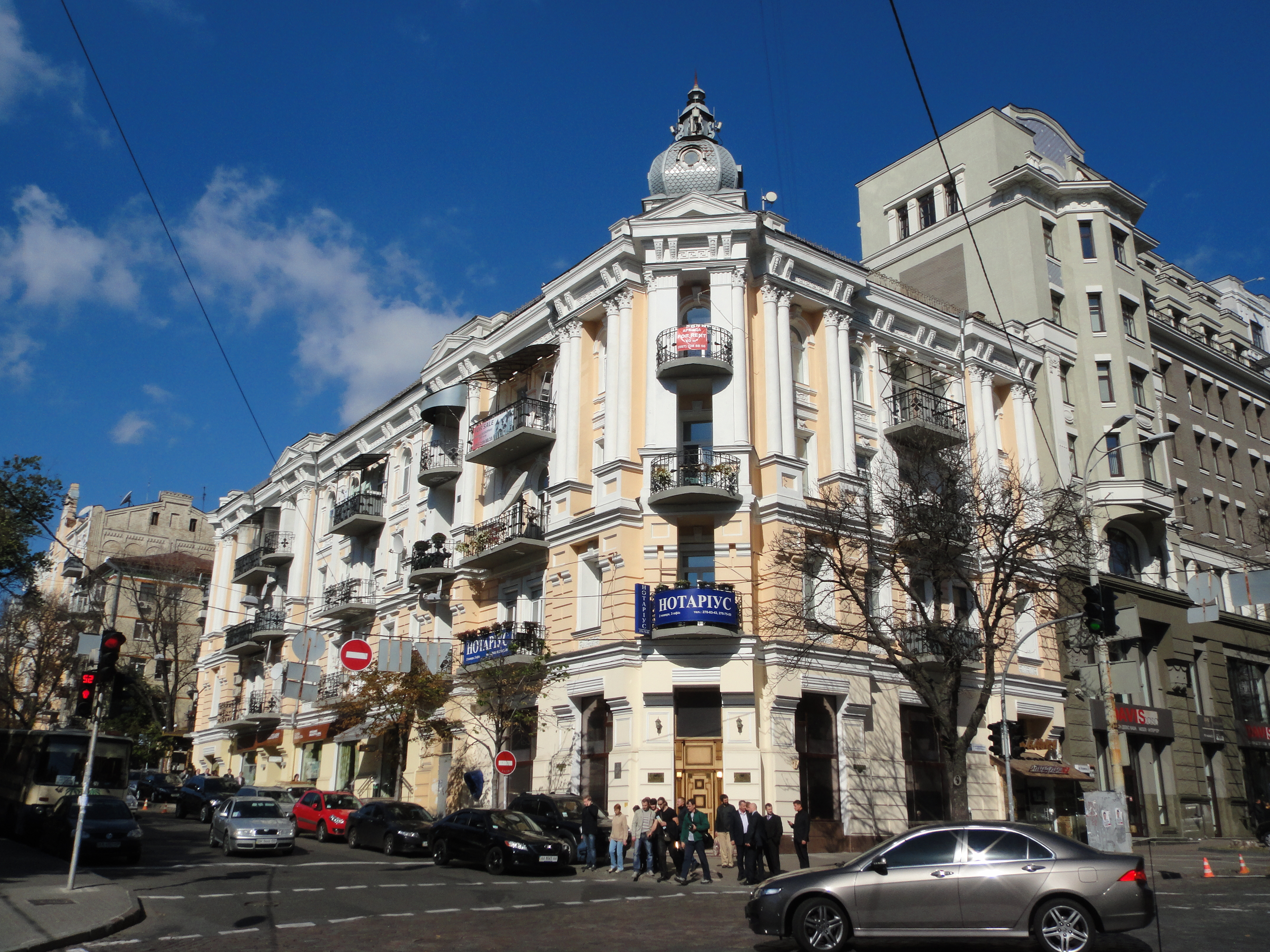 Volodymyrska St., 40/2, Kyiv Profitable house where in 1915 architect Shekhonin N. and in 1918–1919 writer Erenburg I. lived; in 1907-1910 Stelmashenko M. Gymnasium was located. (1898) Protection number № 16-Kv 30.513992,50.449168